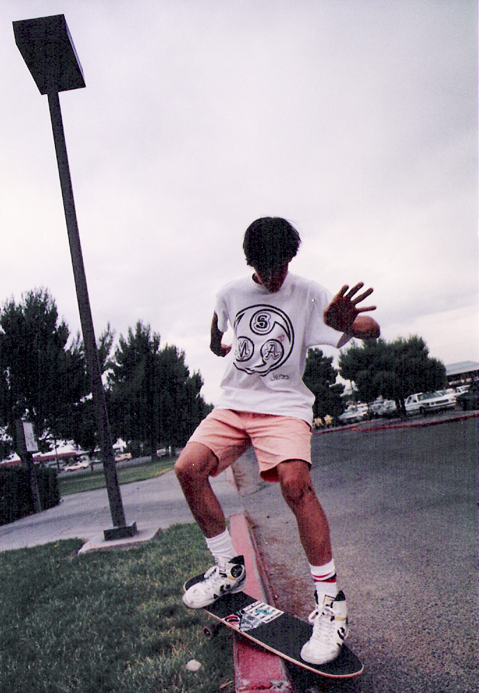 This was taken a few months before Brian became Brain Lotti, I think I gave him that t-shirt.